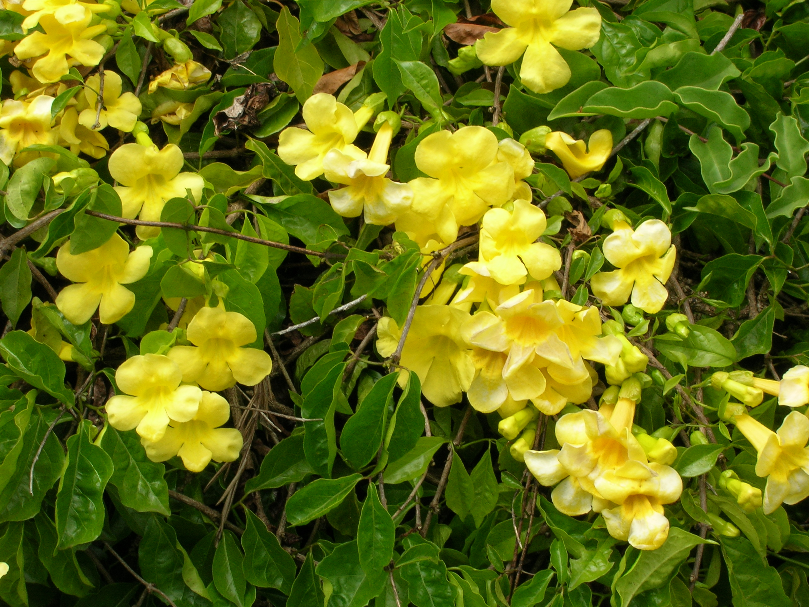 Macfadyena unguis-cati (flowers). Location: Maui, Baldwin Ave Makawao